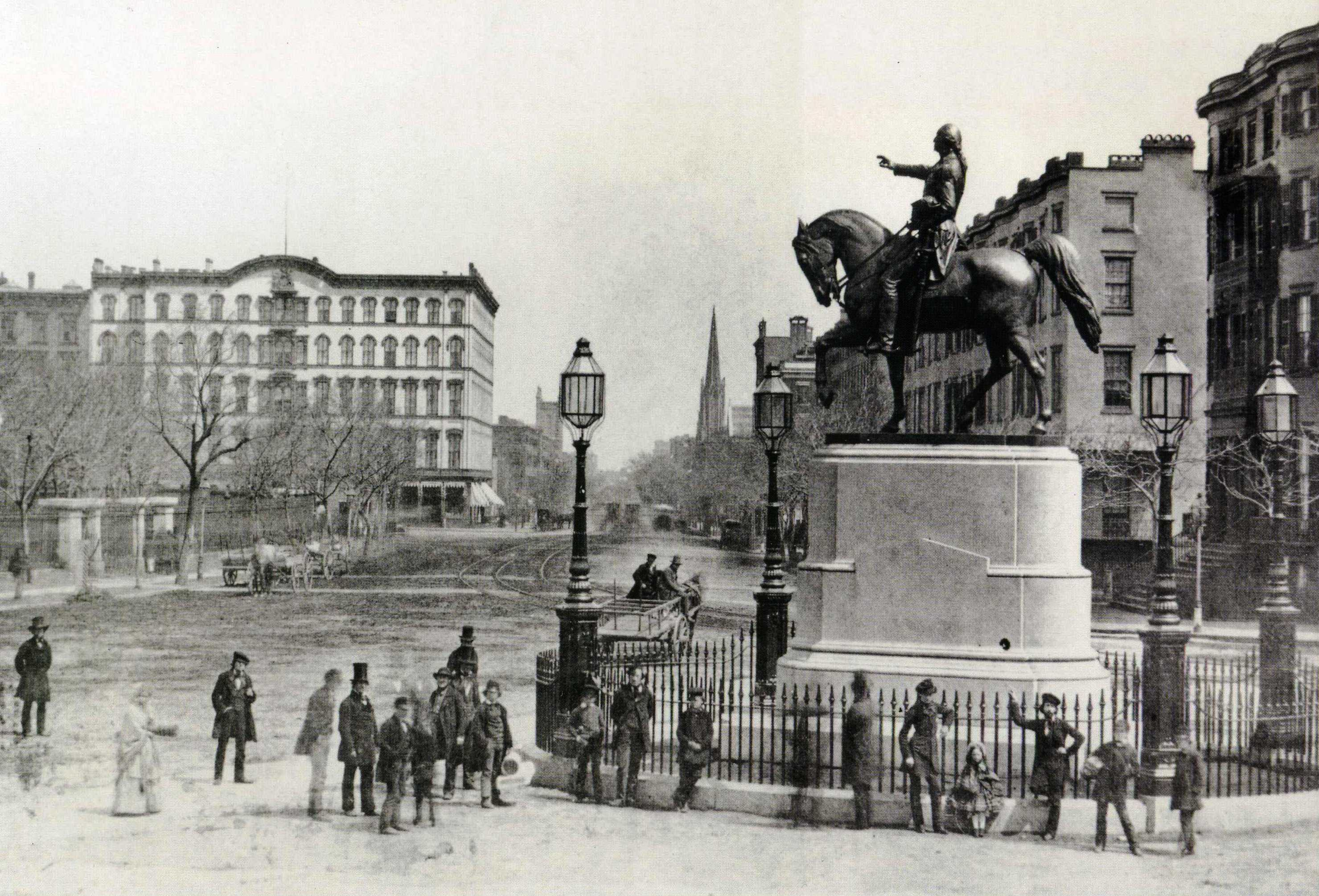 Photograph of Union Square, Manhattan, New York City c.1870